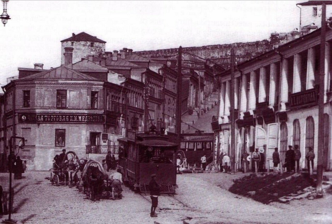 F tram (production of Putilov plant) at station «Skoba» in Nijniy Novgorod.